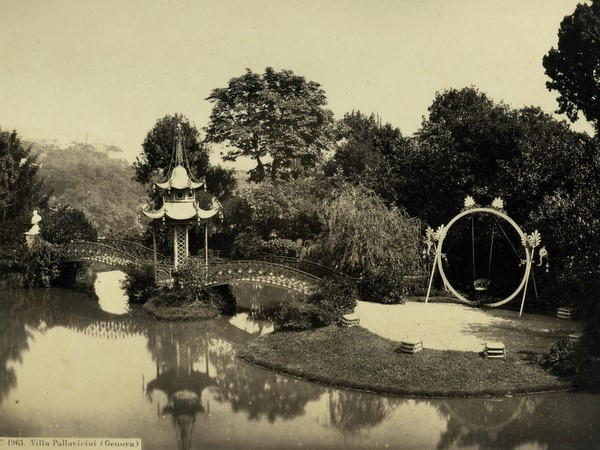 Giorgio Sommer (1834-1914), "Villa Pallavicini (Genoa)", Italy. Catalogue # 1963. Around 1880s. In 2006.